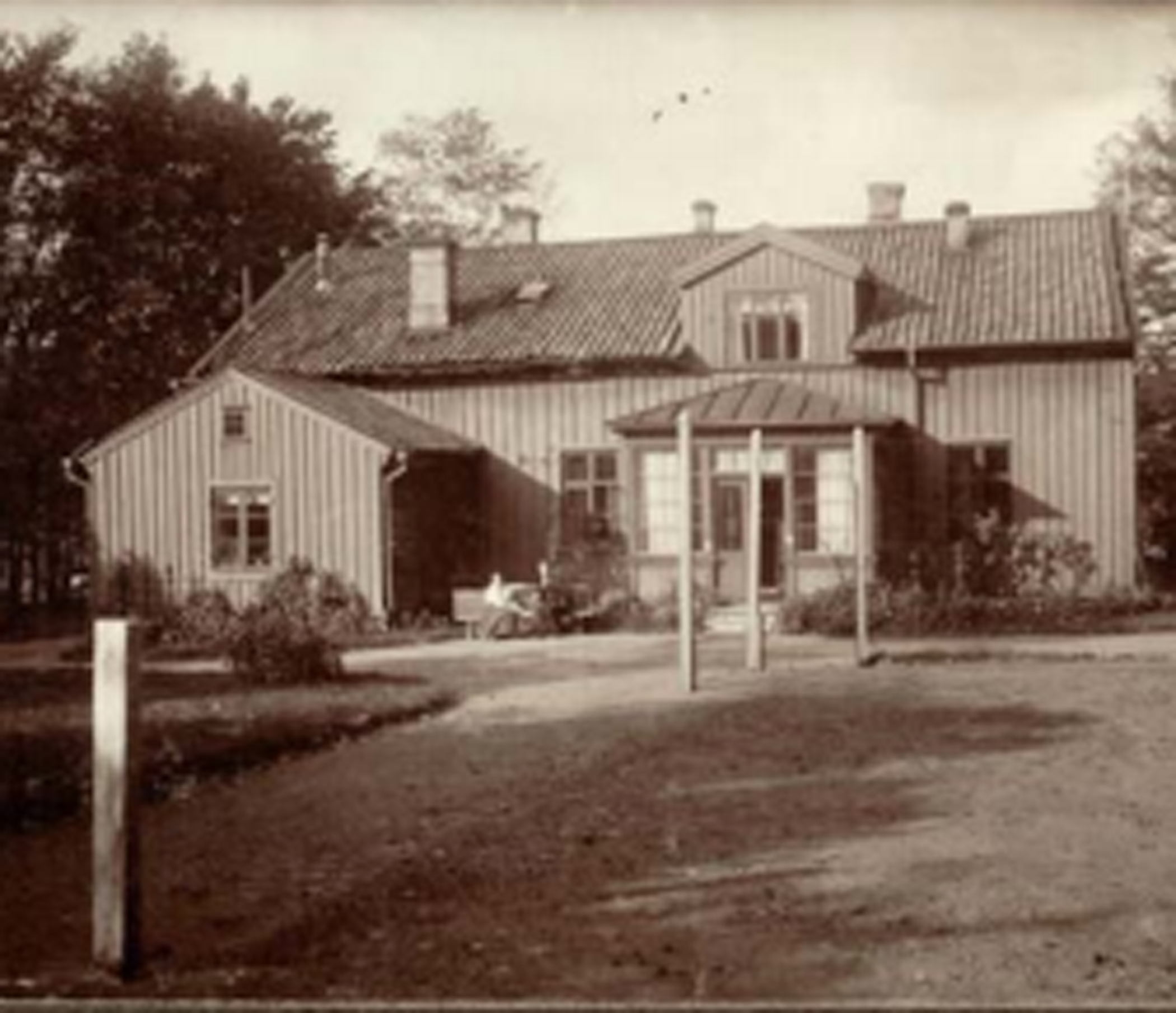 Lyckan, a mansion in Gothenburg, Sweden